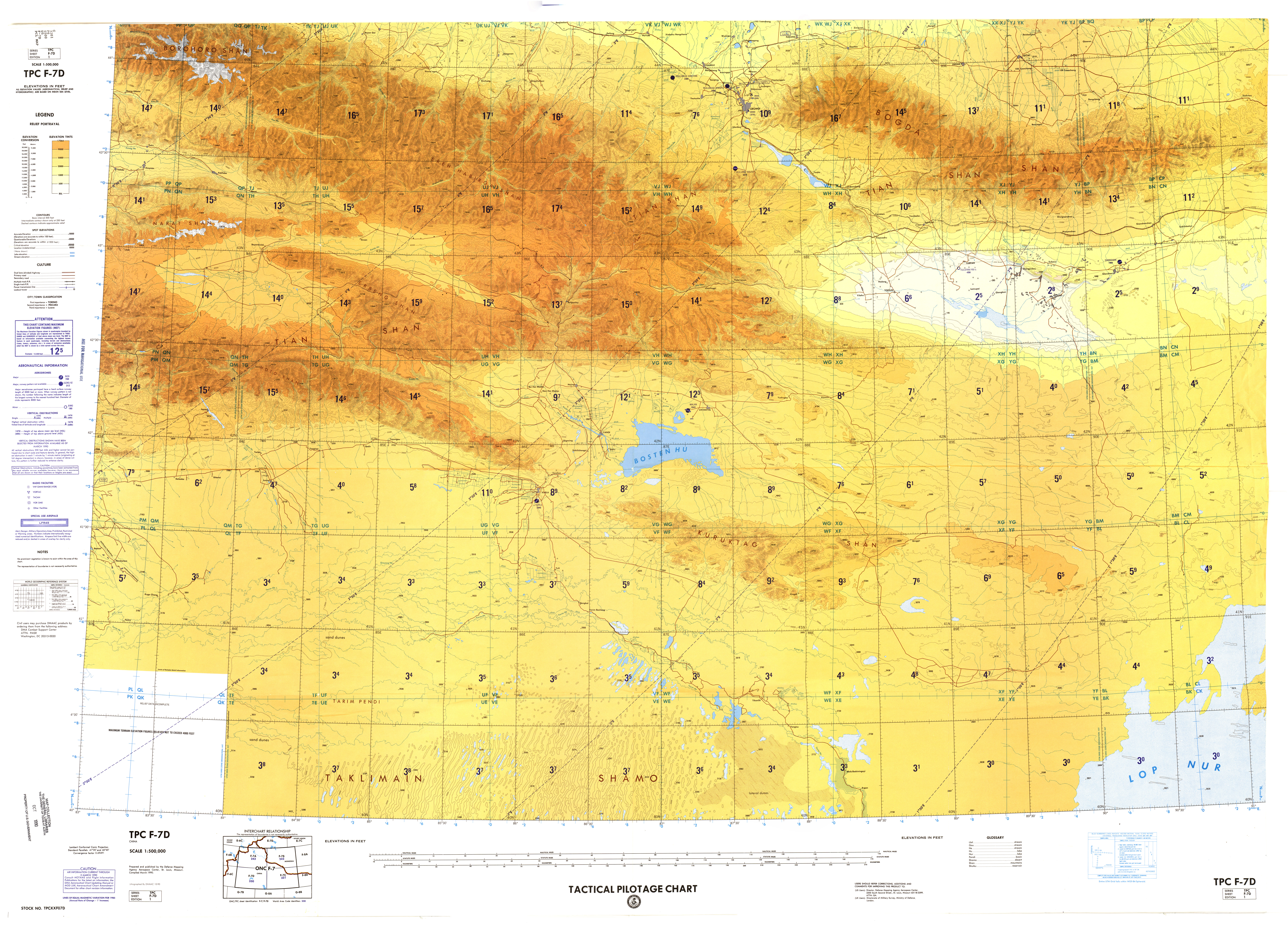 Tactical Pilotage Chart Series - World 1:500,000 Scale